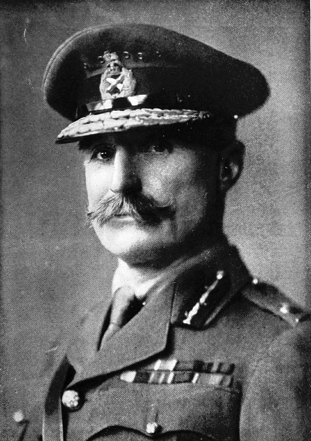 Lieutenant-General Sir Aylmer Hunter-Weston, K.C.B., D.S.O., from Gallipoli Diary, Vol. 2 by Sir Ian Hamilton.